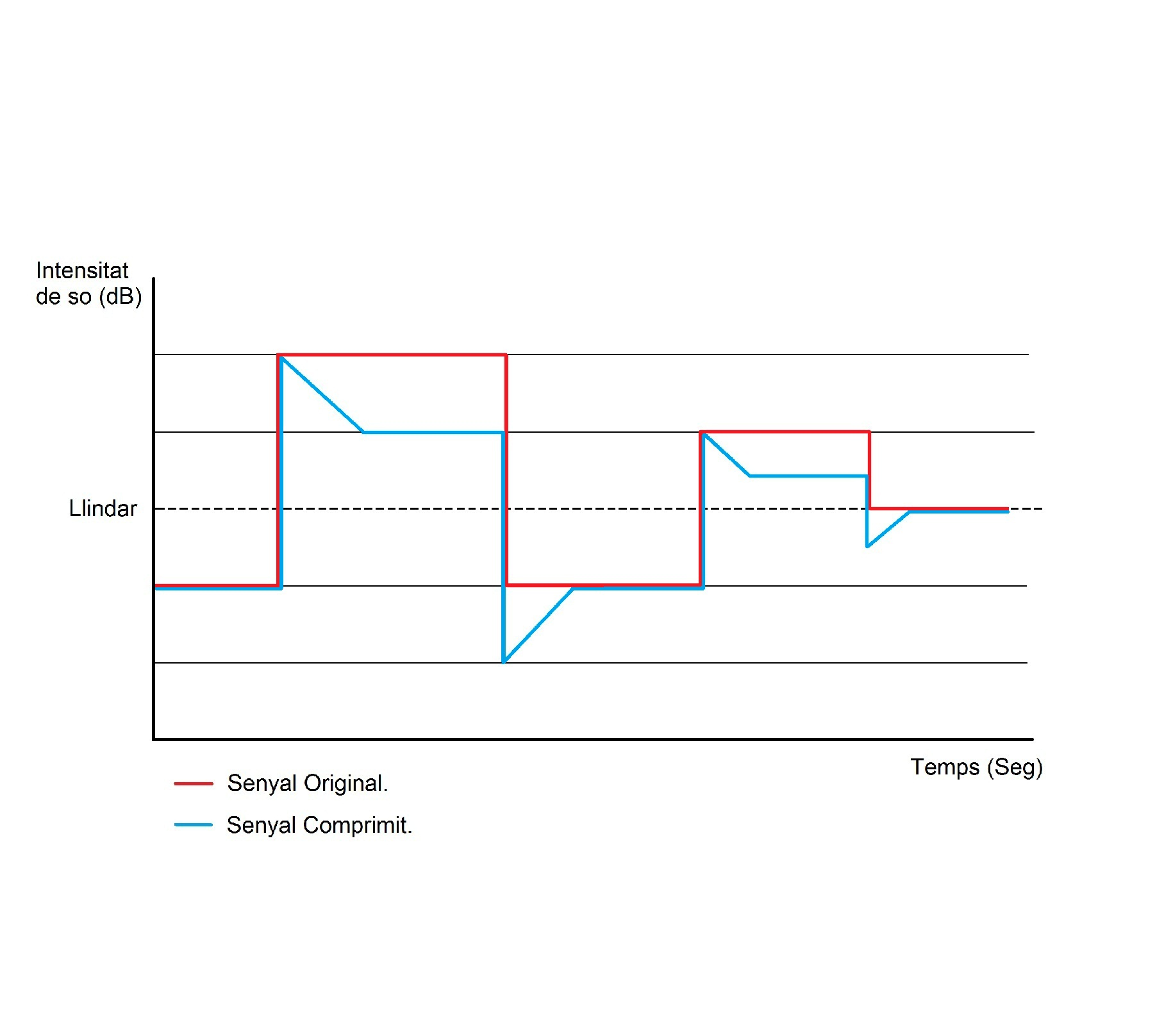 Attack-Release